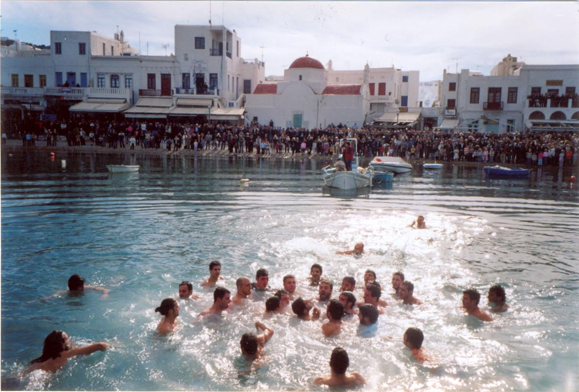 Orthodox Christian annual sanctification of the waters tradition in Mykonos island, Greece. aegean sea. i'm in the water, up left from the others.